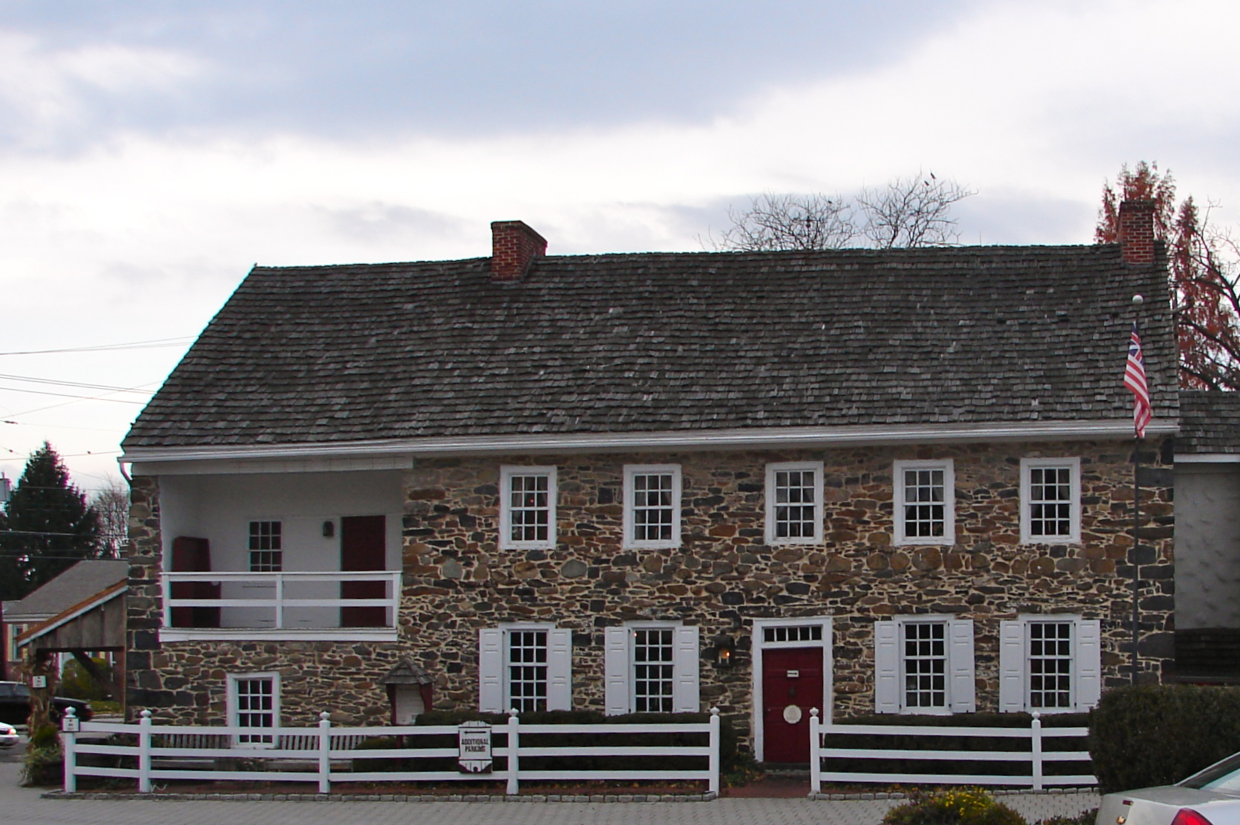 Dobbin House on the NRHP since March 26, 1973. At 89 Steinwehr Avenue, Gettysburg, Pennsylvania. Built 1776.